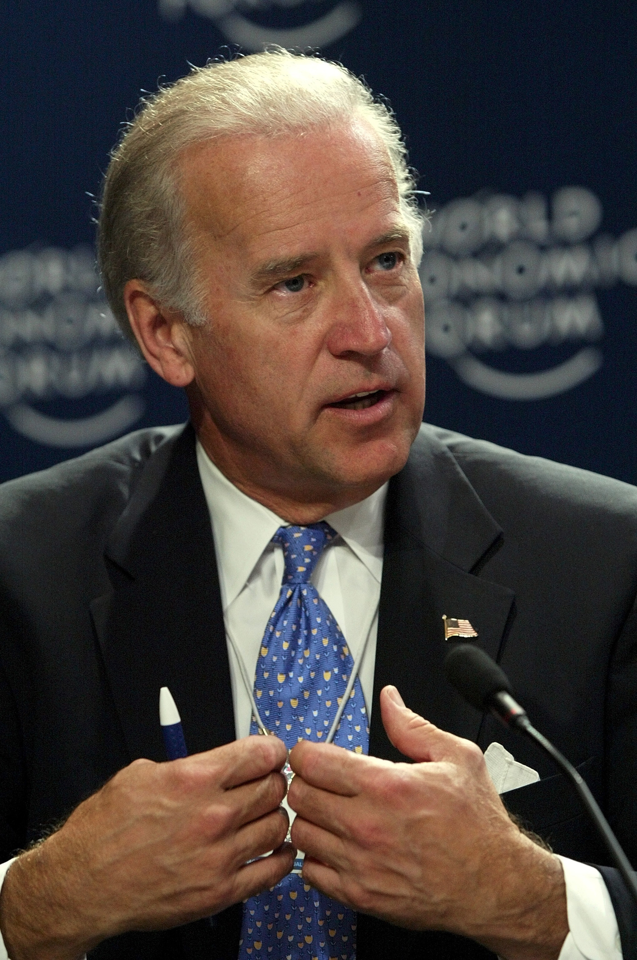 JORDAN, 22JUN03 - Joseph R. Biden, Senator from Delaware (Democrat), USA, captured during the interactive session 'Europe's Role in the Middle East' at the 'Extraordinary Annual Meeting 2003' of the World Economic Forum in Jordan, June 22, 2003. Copyright World Economic Forum ( swiss-image.ch / Photo by Andy Mettler